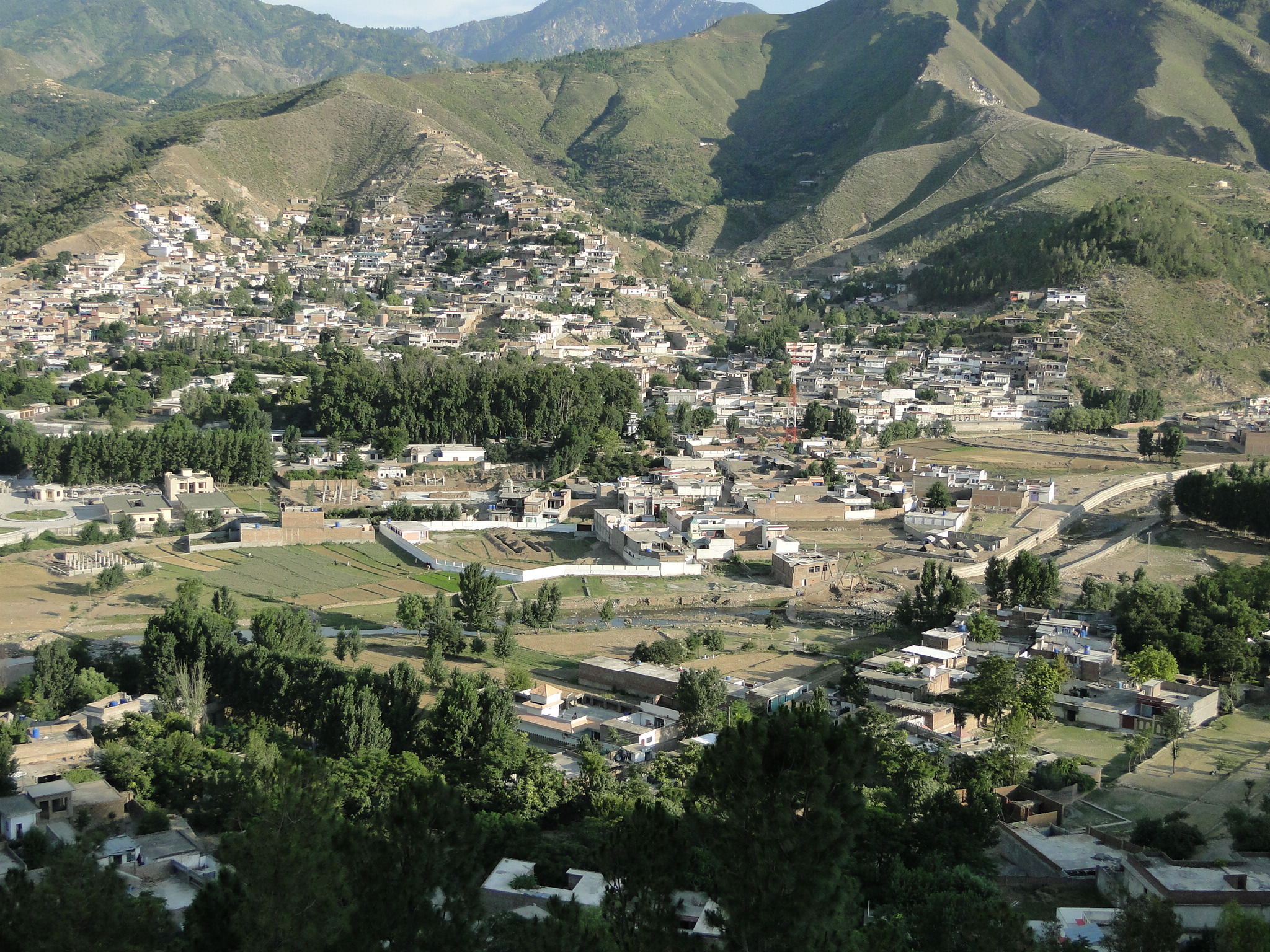 Capital of Swat Valley " Saidu Sharif "